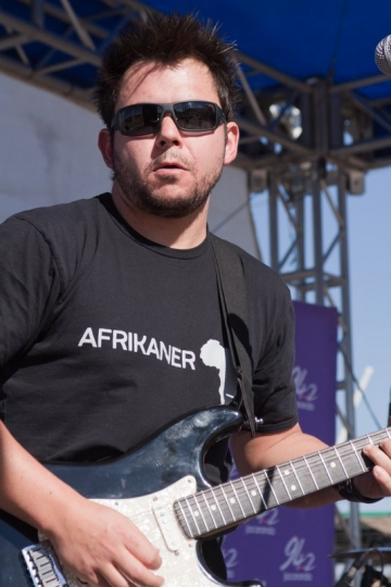 Ricus Nel at "5 vir 50000" Charity